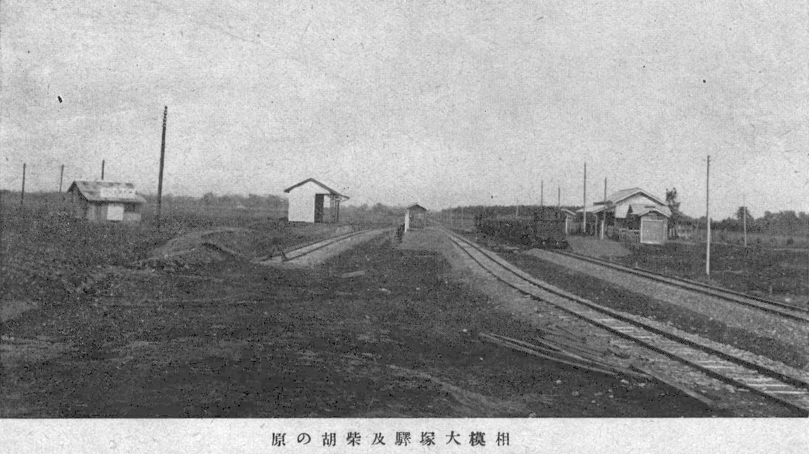 Sagami-Otsuka Station on the Jinchu Railway Co.,Ltd. around 1927. Currently Sagami Railway Co.,Ltd.